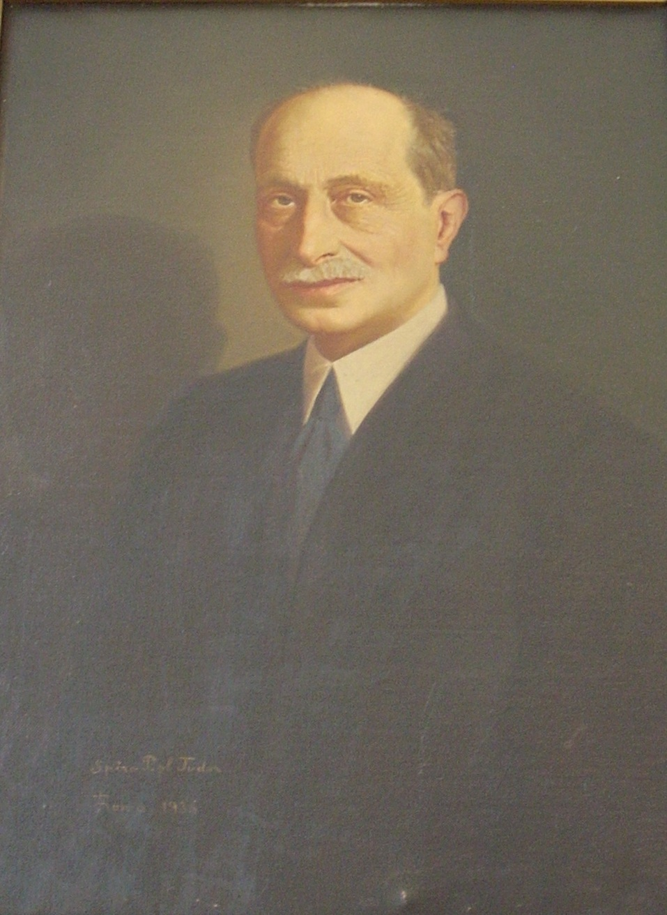 An oil-on-canvas portrait of Sir Aldo Castellani can be seen in the entrance hall of the "Istituto di Clinica delle Malattie Tropicali e Infettive", in the Policlinico Umberto I of Rome. The signature on the painting states: "Spiro P. pl Judor / Roma , 1936".